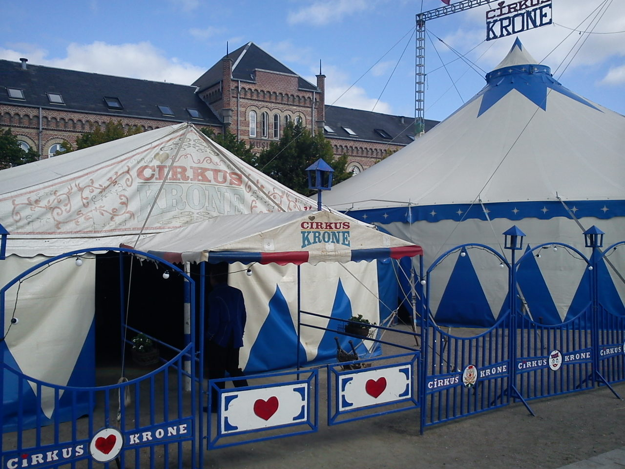 Cirkus Krone at Aarhus Festival